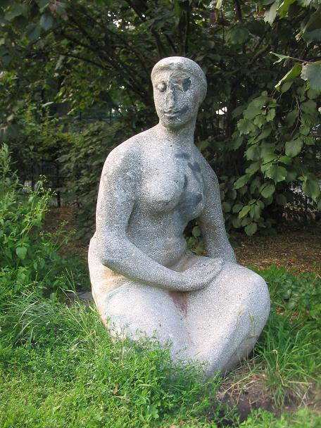 Sculpture the „Kauernde“ (german for: the cowering), sandstone, created in 1956 by the sculptress Katharina Szelinski-Singer. Wartburgplatz (square) in Berlin-Schöneberg.